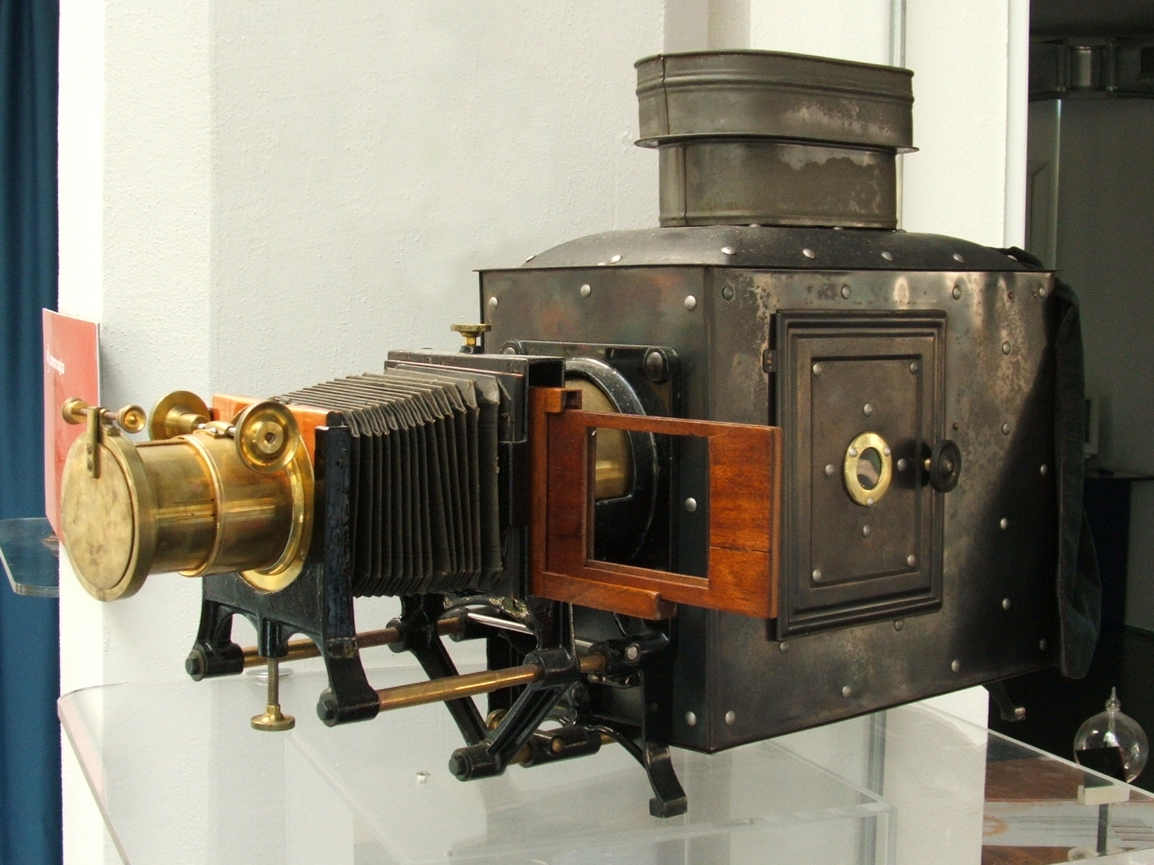 Magic lantern